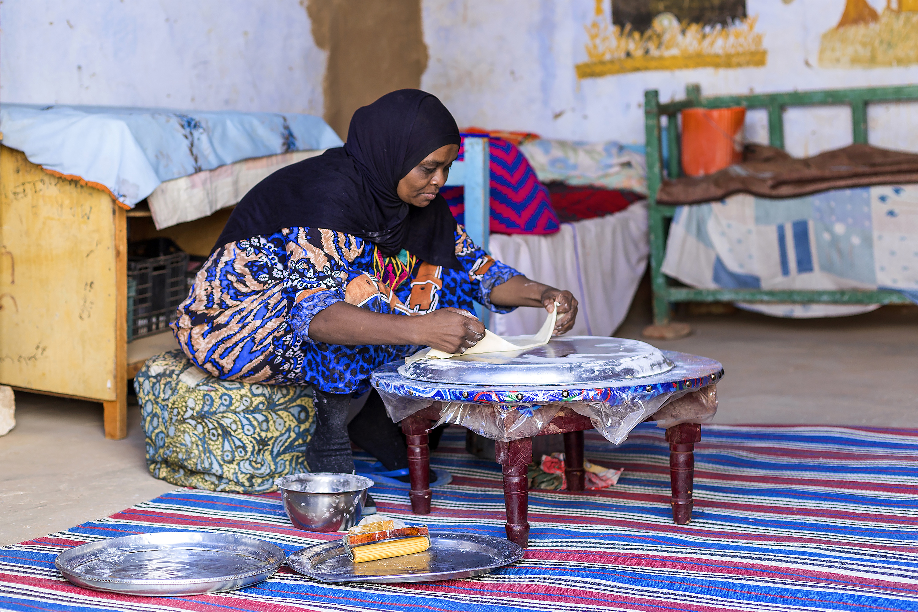 Culturally specific or traditional formal forms of play, recreation or events .. in upper Egypt Nubian women every morning making the handmade Pie for breakfast to the family This is an image with the theme "Play" from: Egypt